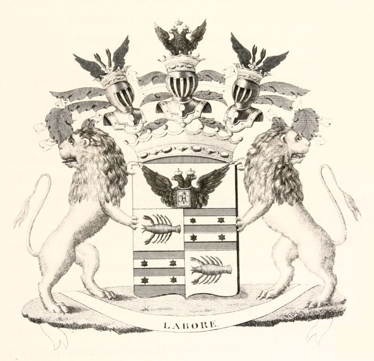 This (more than) 150 year old image has been reformatted, so it became a personal creation, with no rights attached